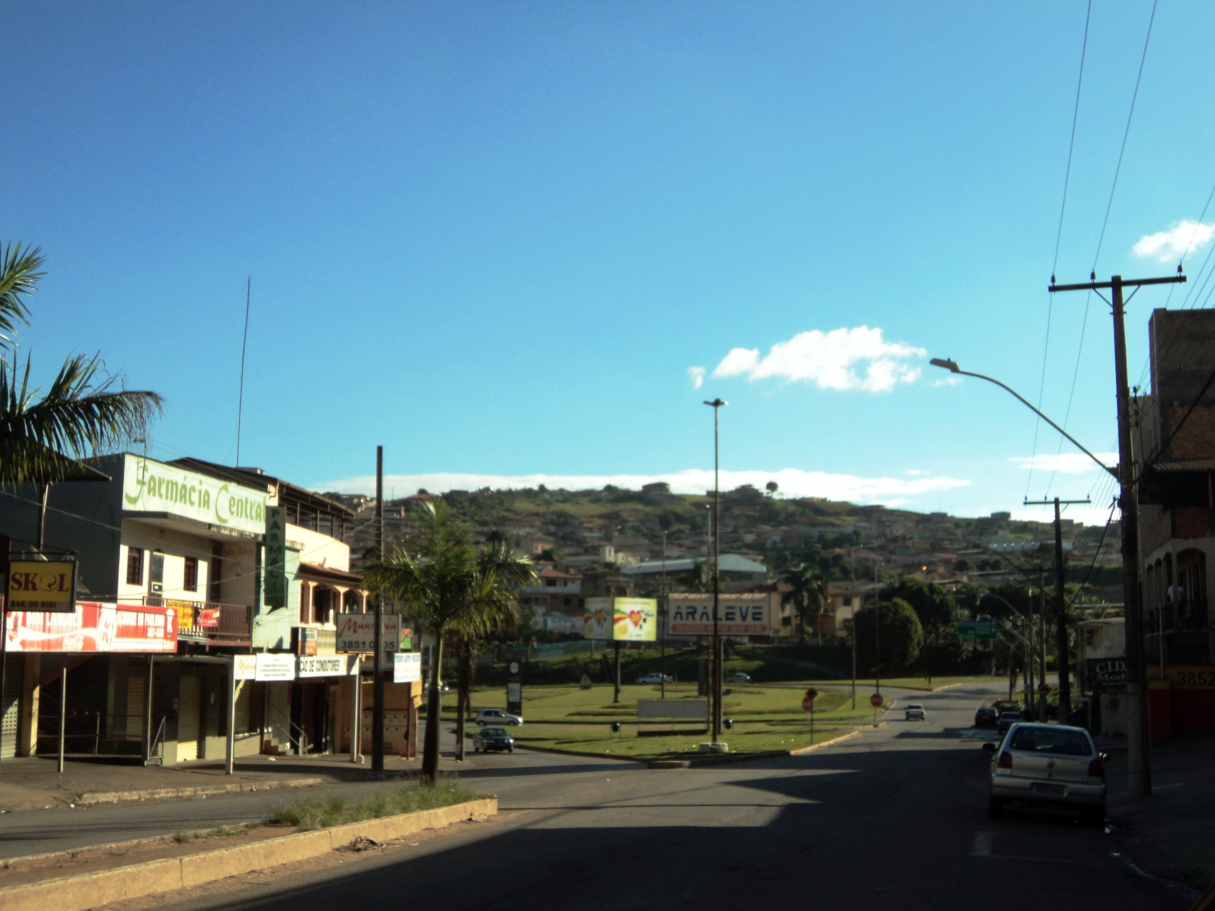 Interchange between the BR-381 and the Armando Fajardo Avenue, in João Monlevade, Minas Gerais, Brazil.